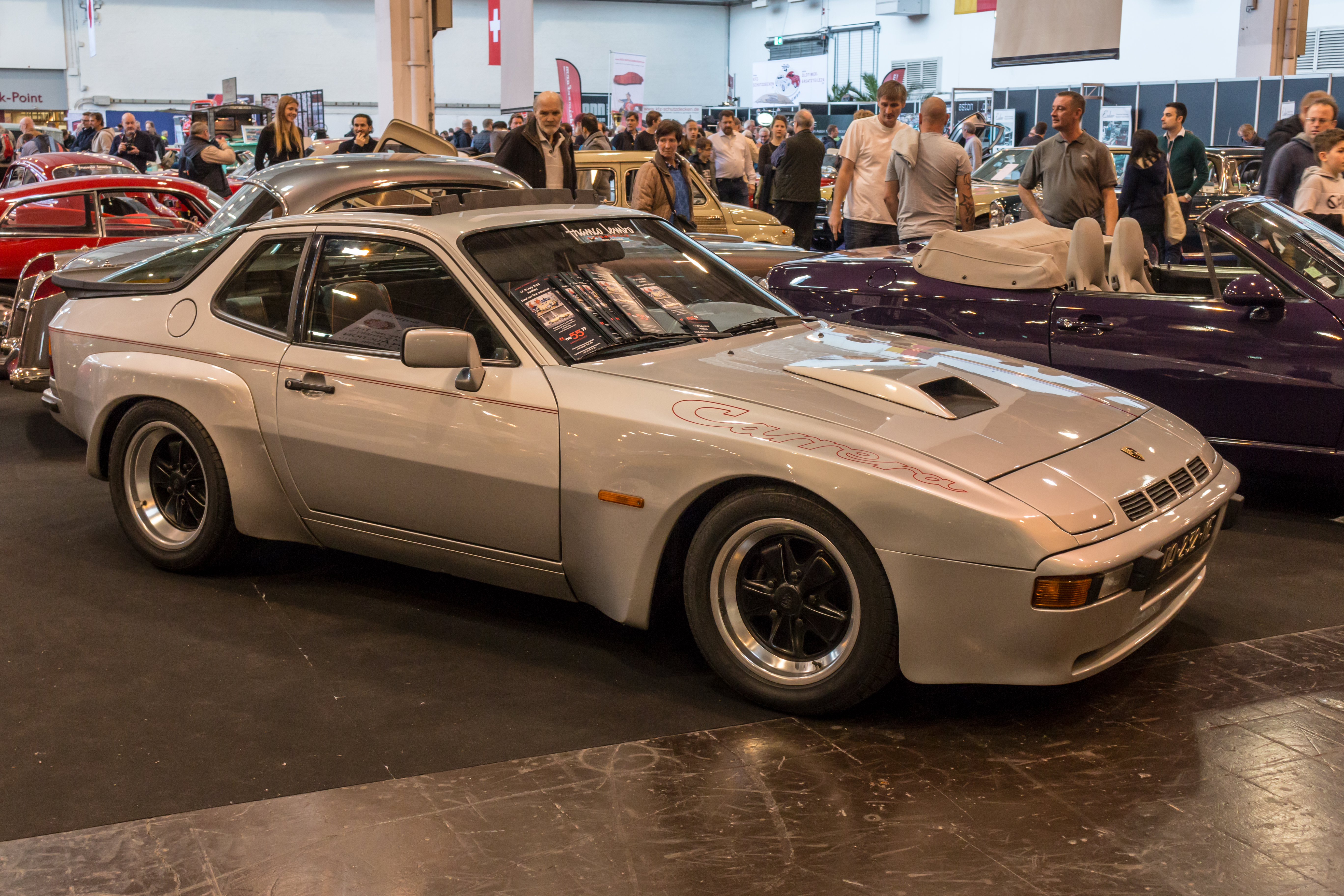 Porsche, Techno-Classica 2018, Essen